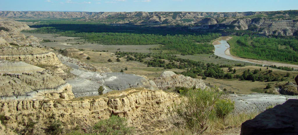 View of the Little Missouri River flowing through Theodore Roosevelt National Park in the U.S. state of North Dakota